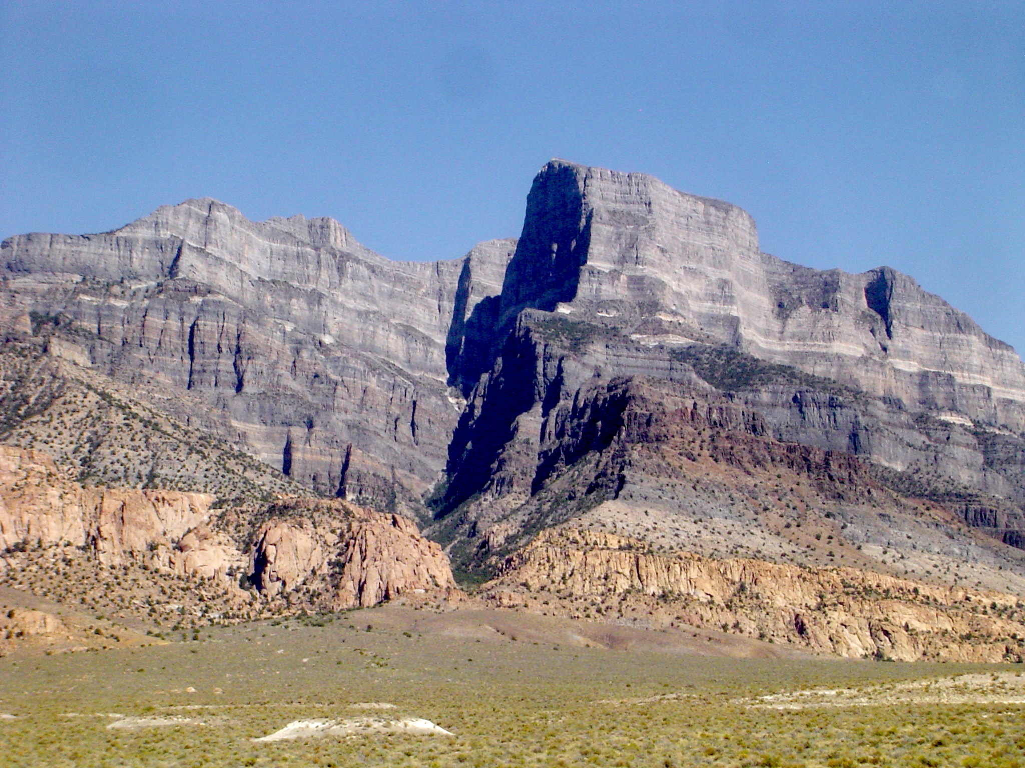 Notch Peak, the most prominent feature in the House Range, Utah. Since the definition of 'cliff' varies, depending on the source, this is the tallest carbonate rock cliff in North America and/or the second tallest pure vertical drop in the United States. Along with the cliff and Sawtooth Canyon below it, you can also see the layered Cambrian to Ordovician passive margin sequence, the pink Notch Peak Monzonite, and the white Lake Bonneville marls.